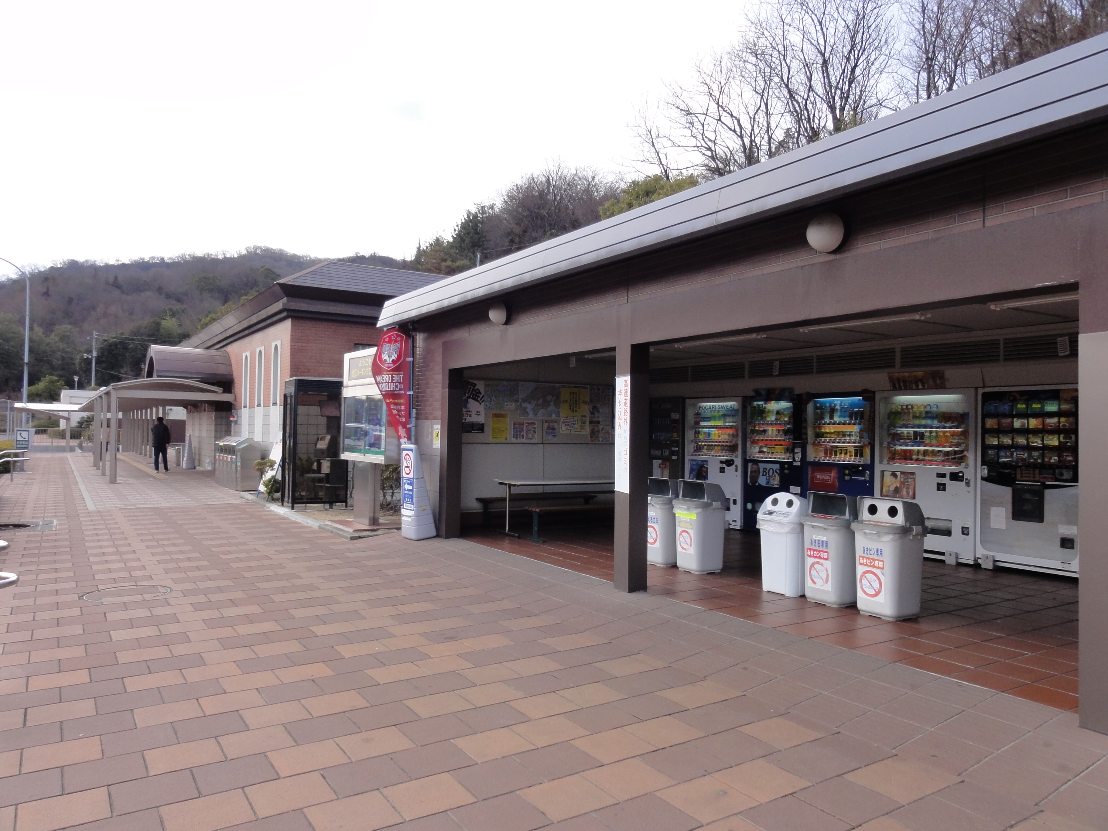 Tsubue Parking Area,Okayama pref..,Japan